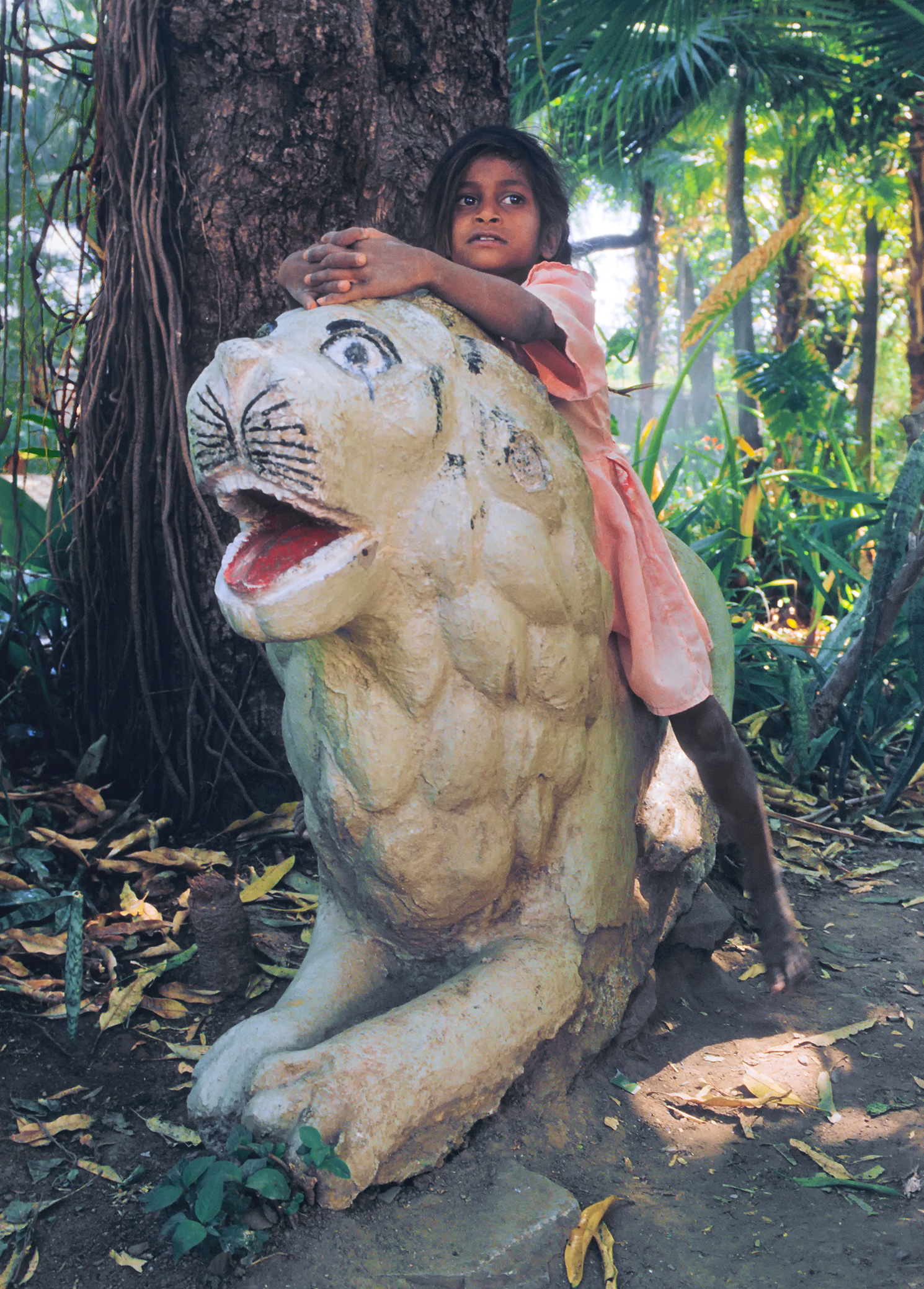 Girl is playing "Jungle Child" in Udaipur, Rajasthan, India in the year 1986.